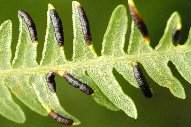 Dasineura pteridis from Commanster, Belgian High Ardennes .